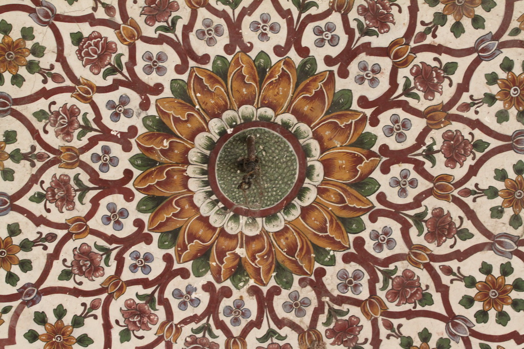 Wazir Khan Mosque This is a photo of a monument in Pakistan identified as the PB-100